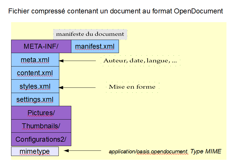 content of an OpenDocument file